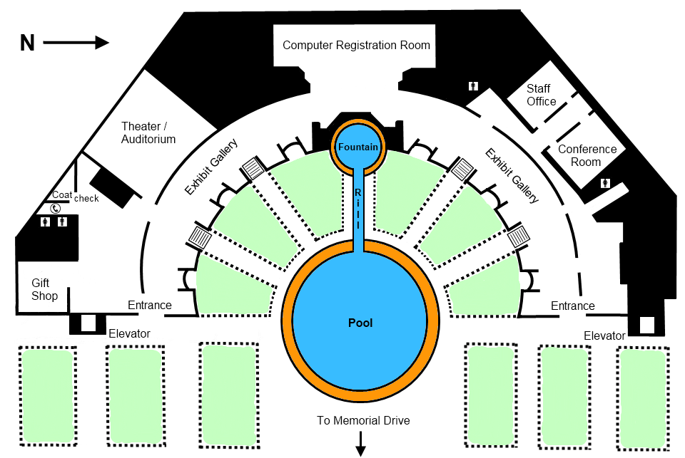 Map of the Women in Military Service for America Memorial at the gates of Arlington National Cemetery in Arlington County, Virginia, in the United States, as of April 2013.